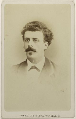 cabinet card photograph of Edmond Bazire (Journalist and writer)